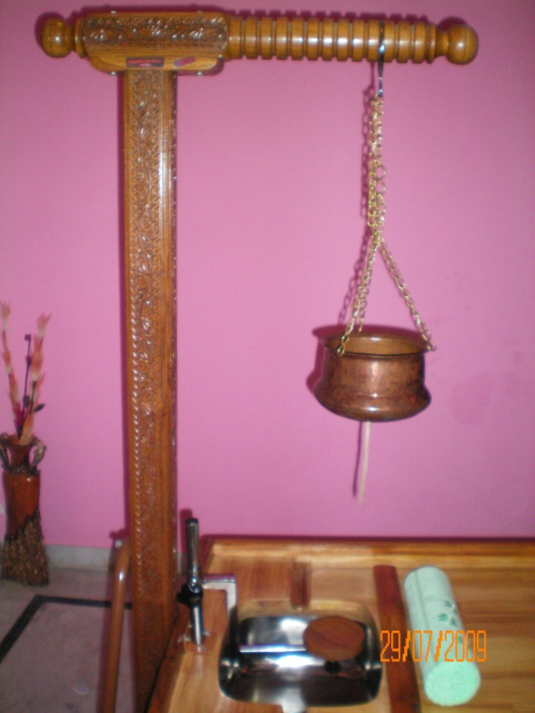 Bliss Ayurveda